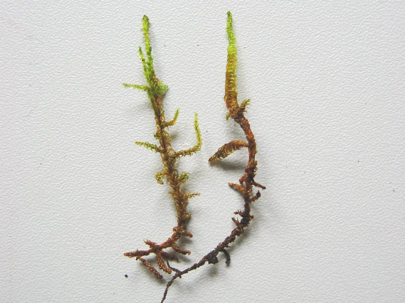 Mittleres Sichelmoos (Drepanocladus intermedius)